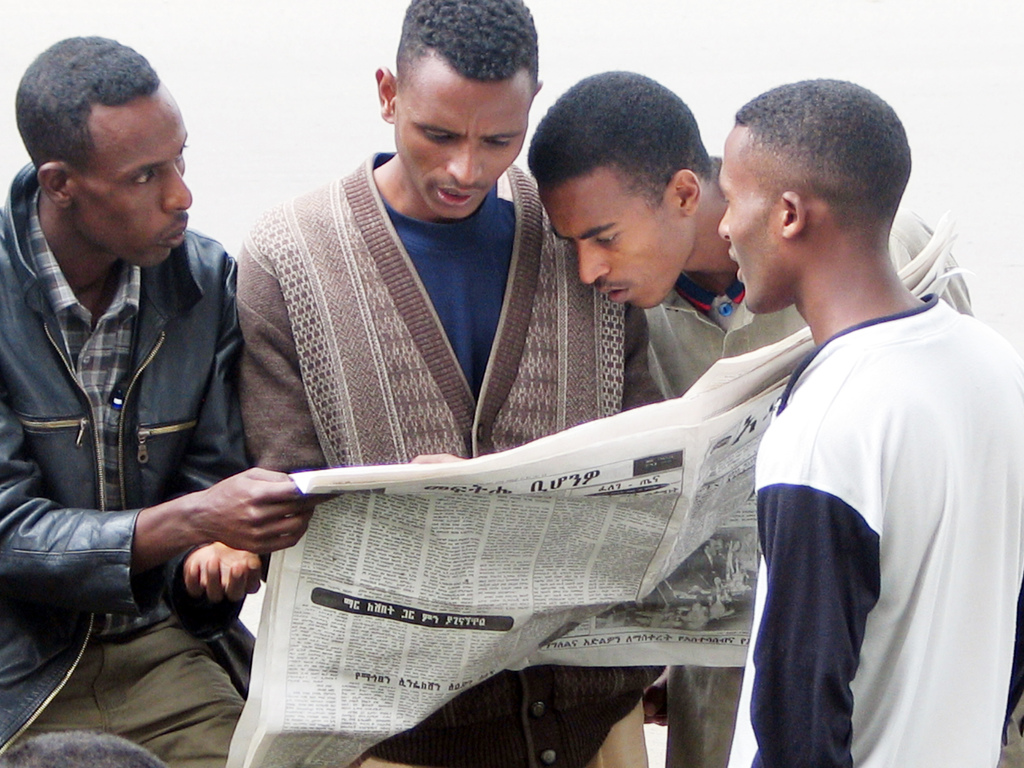 newspaper readers, Addis Ababa, Ethiopia